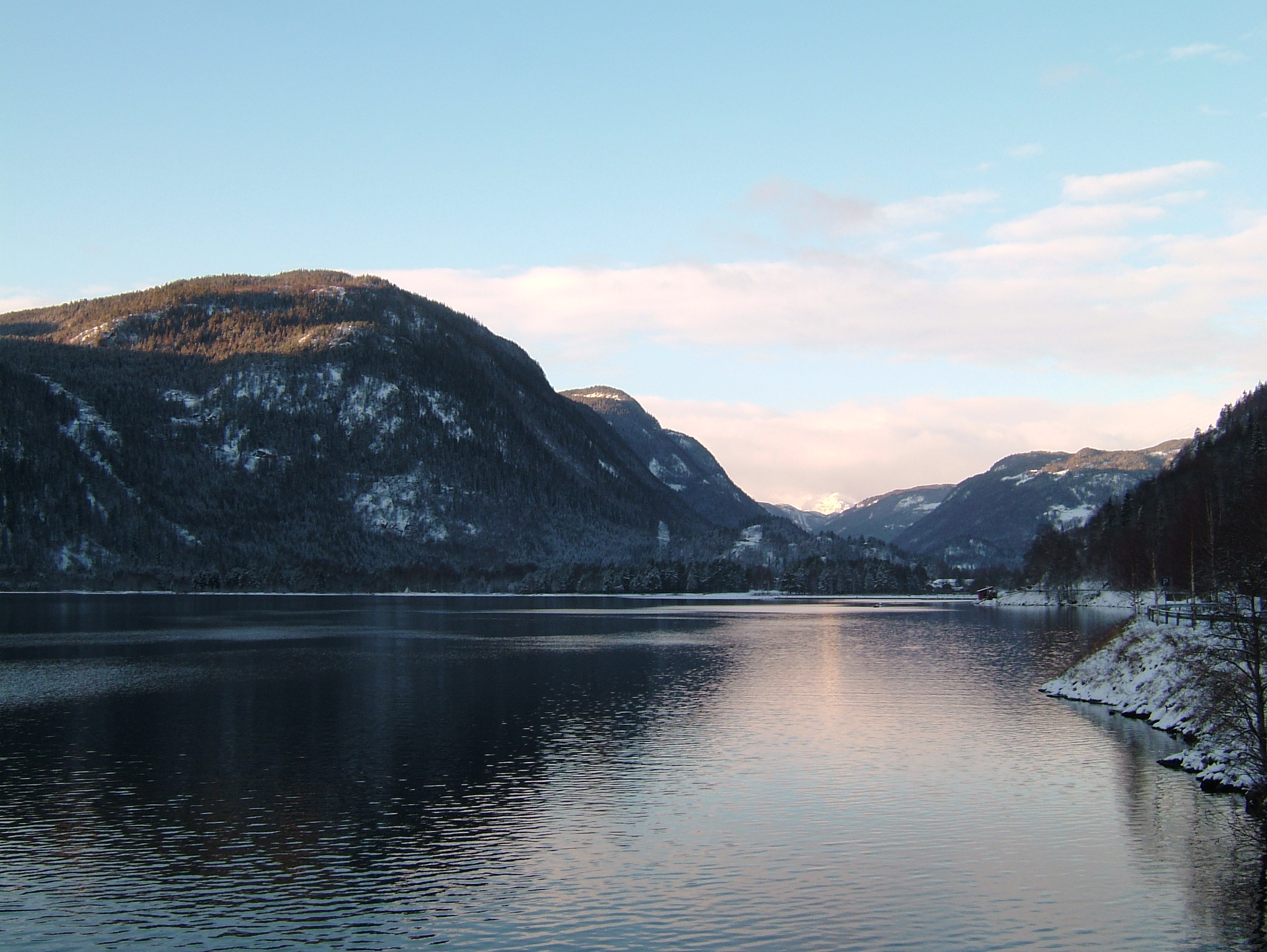 Bandak lake from the view from the hydro power plant Tokke.